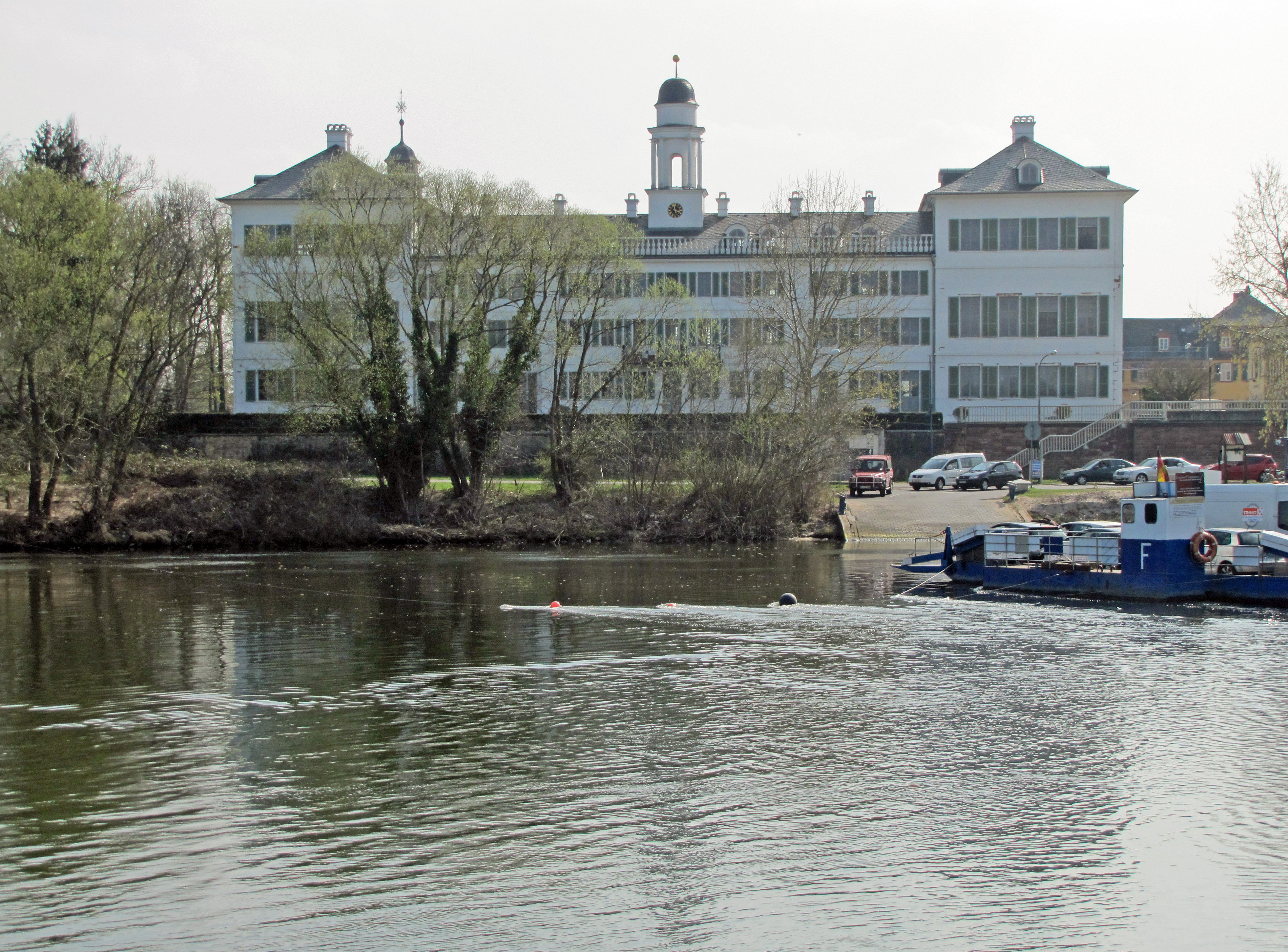 View from Maintal bank side to "Rumpenheimer Schloss". Hesse, Germany.